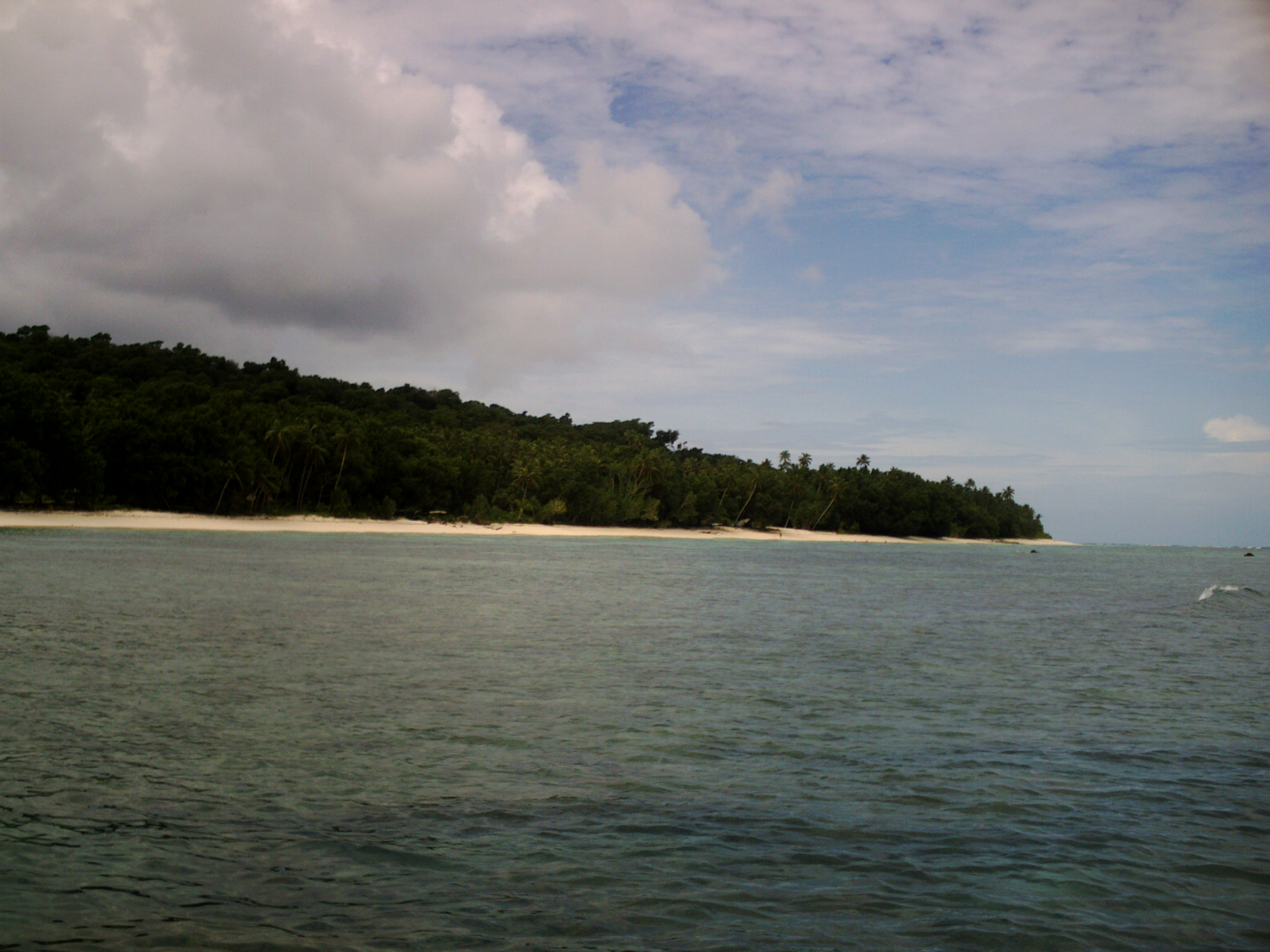 Alofitaï beach, Alofi Island